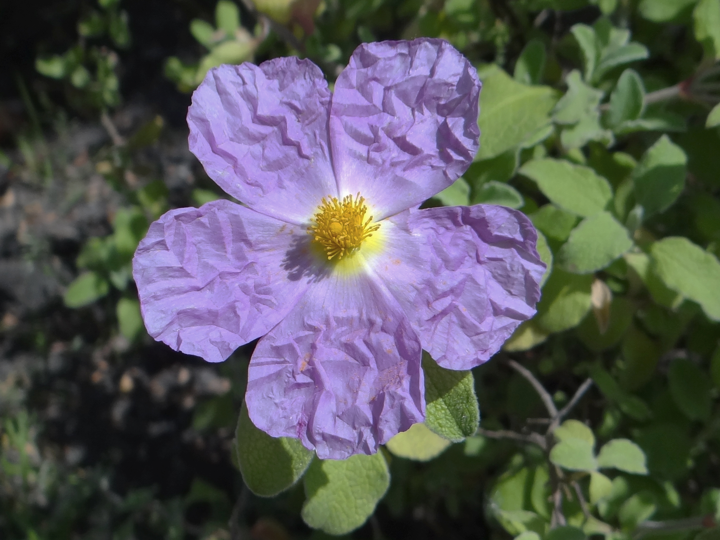 Cistus albidus (location:Botanical Garden in Cracow)